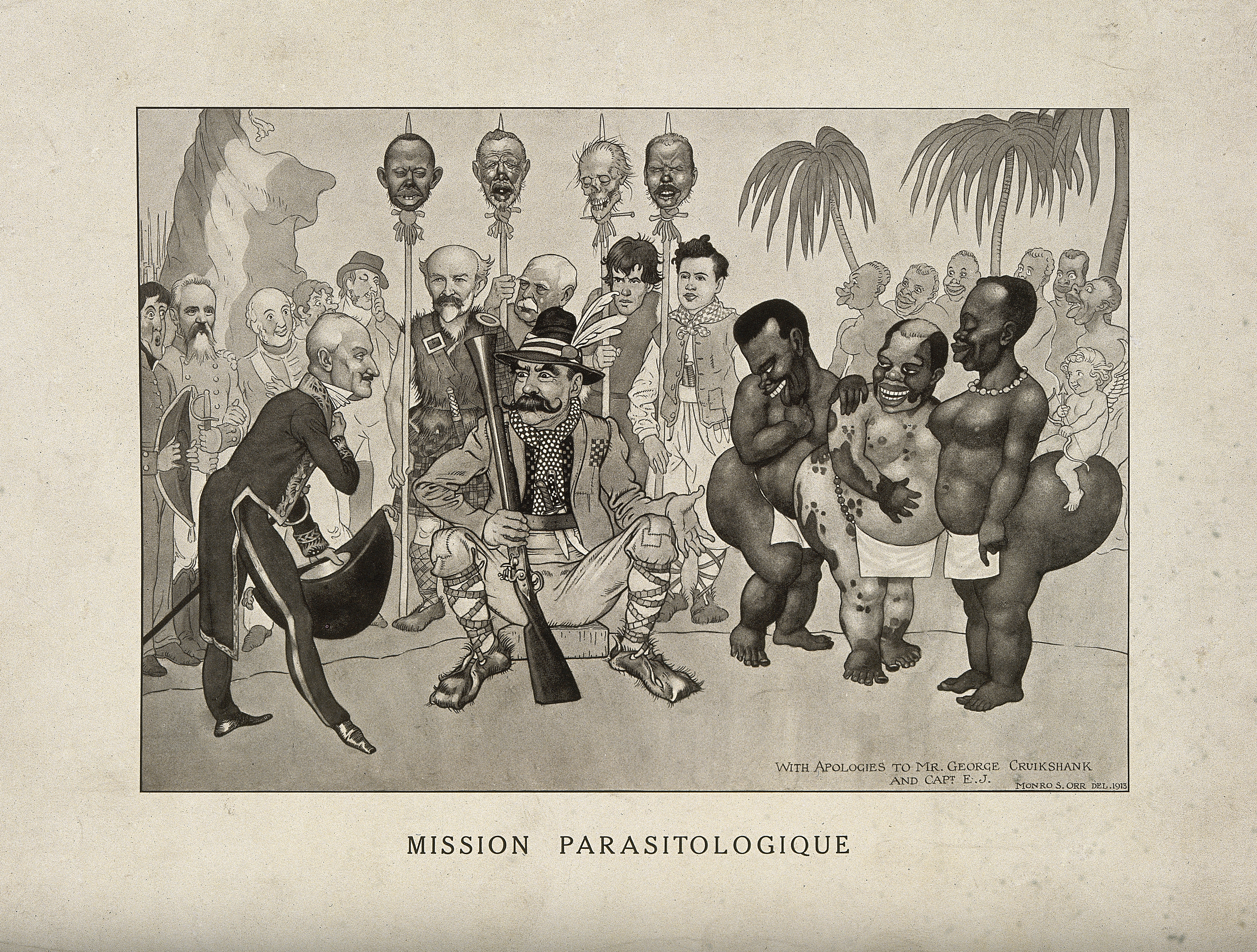 A hunter offering a French gentleman three 'hottentot' (steatopygous) women; representing L. Sambon and R. Blanchard at an Anglo-French tropical medicine conference. Reproduction of a drawing by M.S. Orr, 1913. The composition by M.S. Orr is based on that of a caricature by Cruikshank, "Puzzled which to choose!! or, the King of Tombuctoo offering one of his daughters in marriage to Capt." (British Museum, Catalogue of satires, no. 13043). In the original, the seated central figure is the King of Timbuktu, and the bowing guest is Captain Francis Lyon (1795-1832), the leader of an expidition to northern Central Africa. More information at the above link. Orr adapted the drawing so the seated central figure is Louis Sambon and the bowing guest is Raphael Blanchard. The central woman is piebald in reference to Blanchard's writings on "nègres pies" (partial albinos); the Union Jack on the left is replaced by the French tricolore; and the king's bodyguard holding skulls on spears are replaced by portraits of students and professors of tropical medicine: left to right, Cantlie with the head of Christophers, (The head identified as Cantlie could be J.W.S. MacFie.) Manson with the head of possibly Sir William Macgregor, William Orr with the head of R.T. Leiper, and William's cousin James Gilchrist with the head of Ronald Ross. The head of a man on the far left standing below the French flag is also a portrait, of an unidentified Frenchman